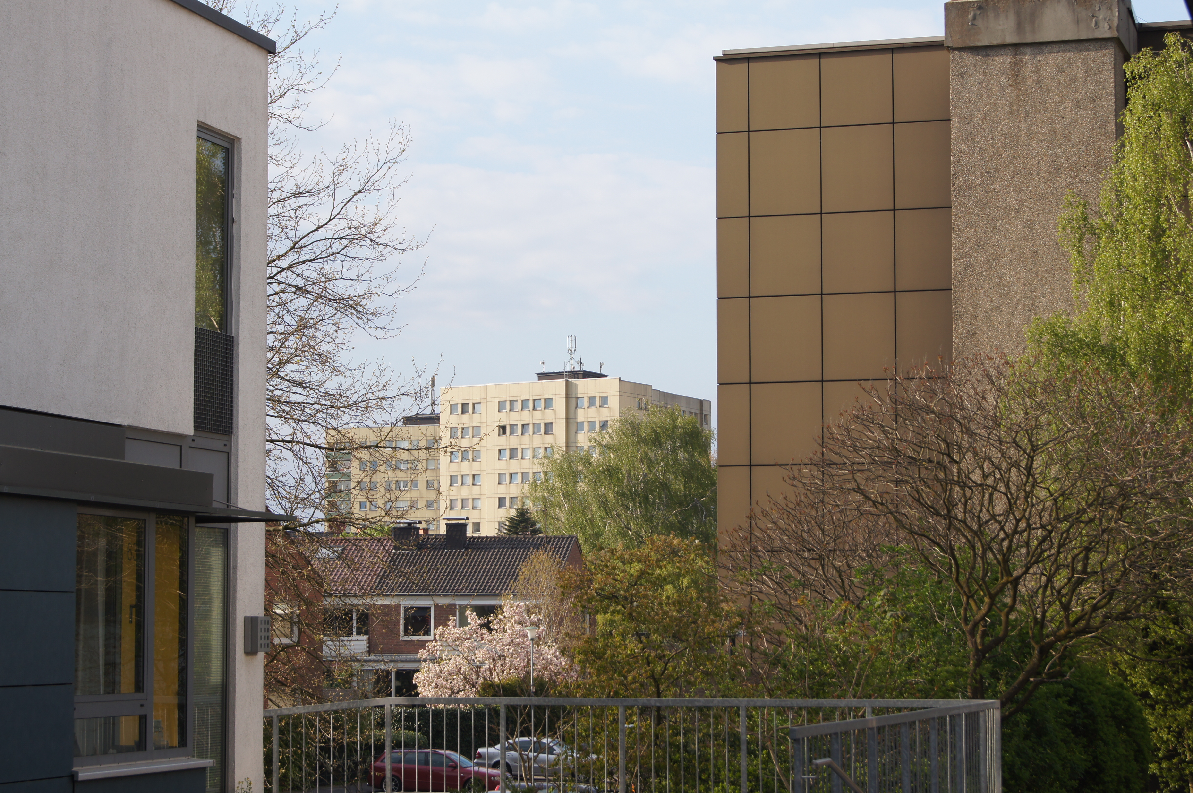 View from Aasee market to the high-rise buildings in Aaseestadt, a part of Münster, Germany. Architect of the high-rise buildings: Karl-Friedrich Sommer. The high-rise buildings were build in 1959. The Aasee market was build in 1965.